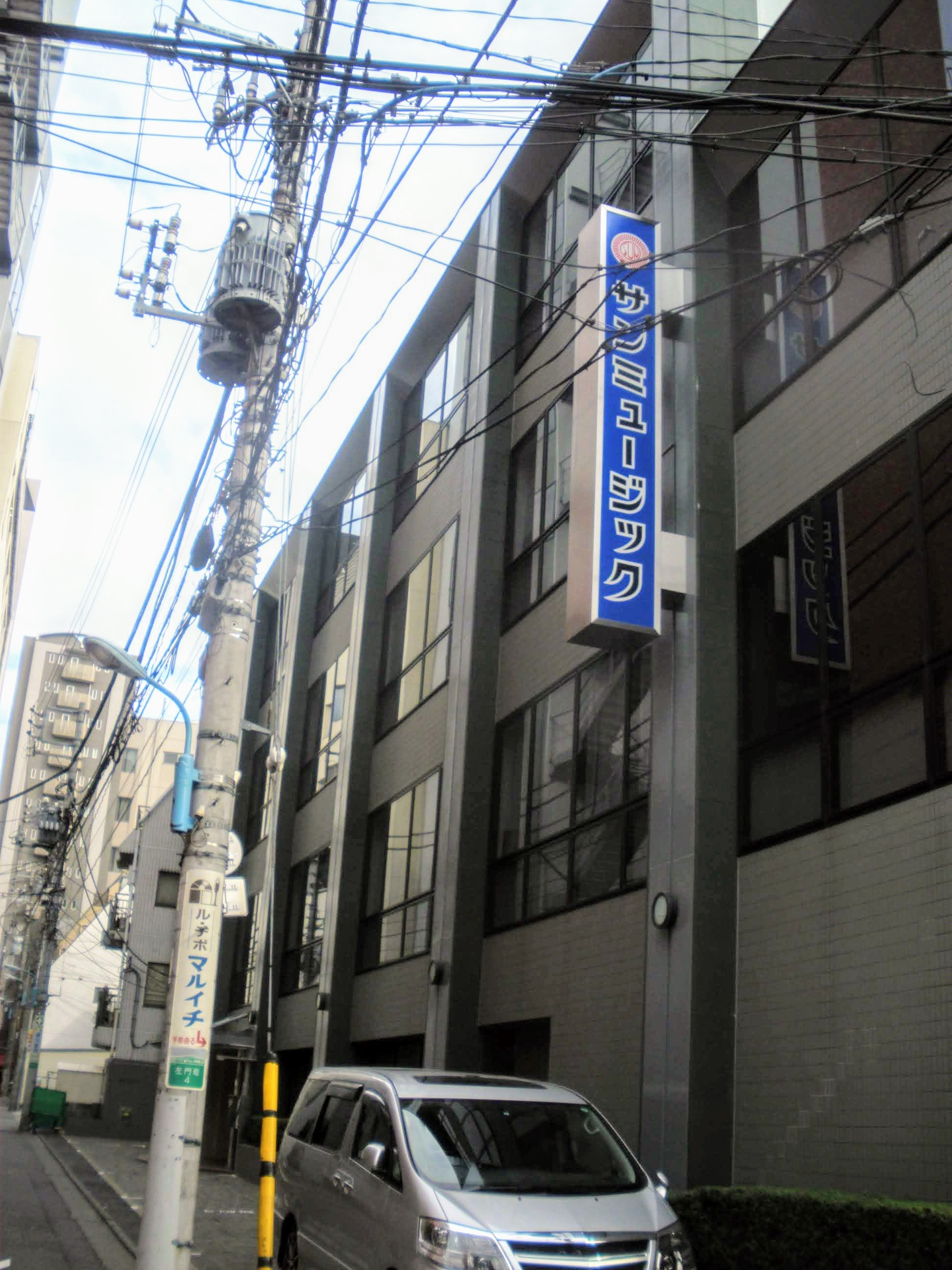 Sun music Head office(Samoncho,Shinjuku,Tokyo)